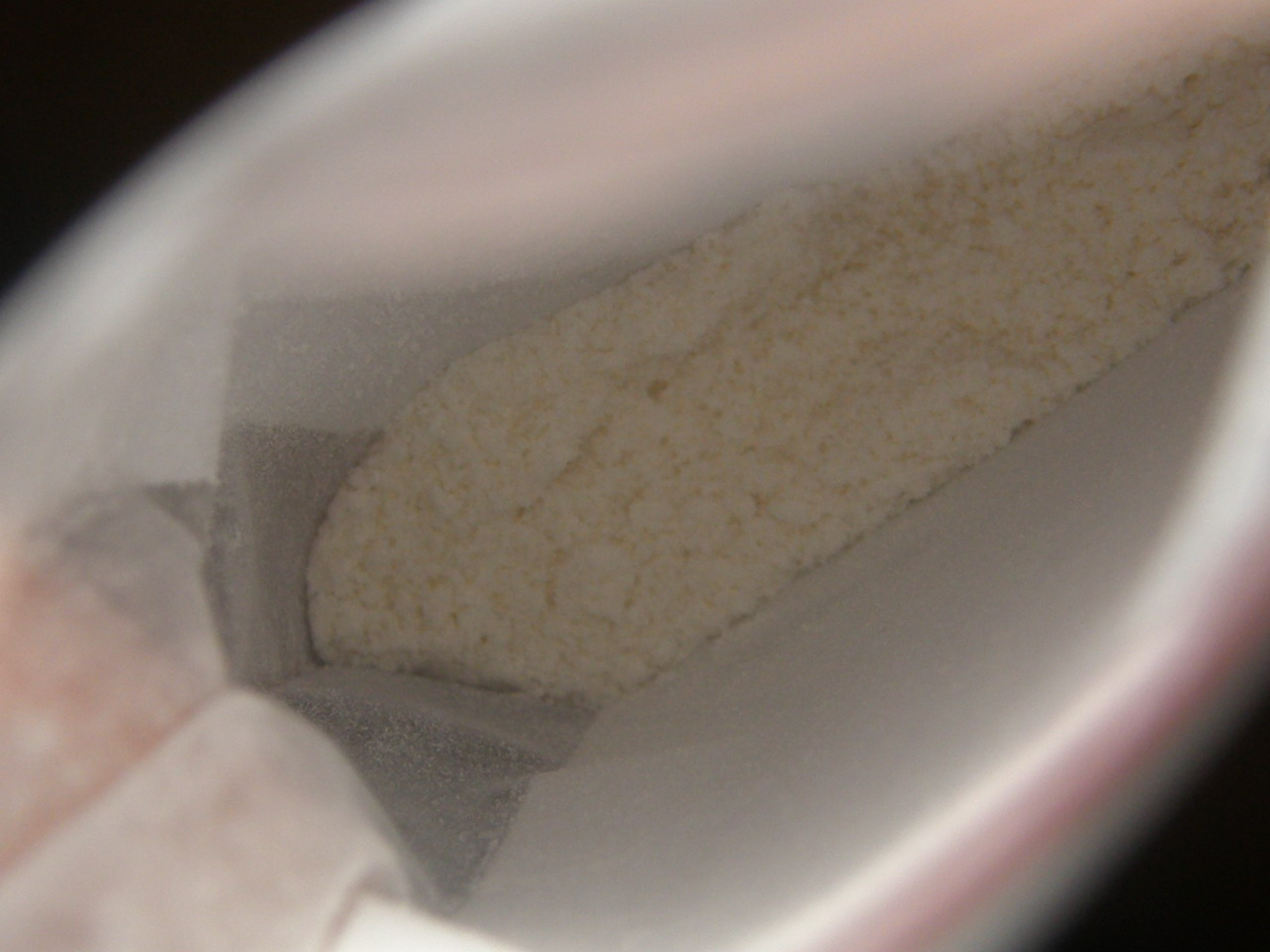 1 gram of methoxetamine